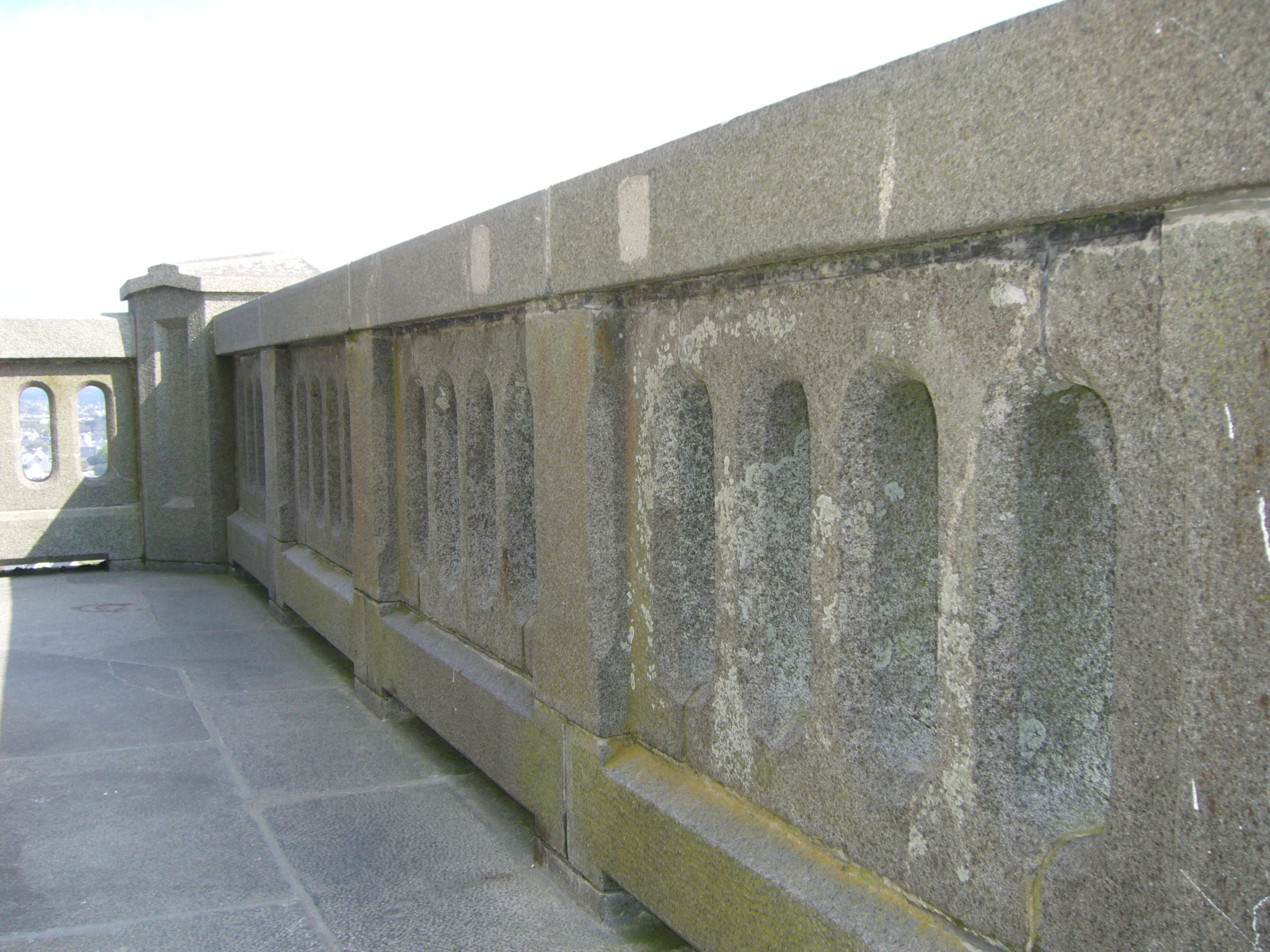 Eckmühl lighthouse's campanile's balustrade.